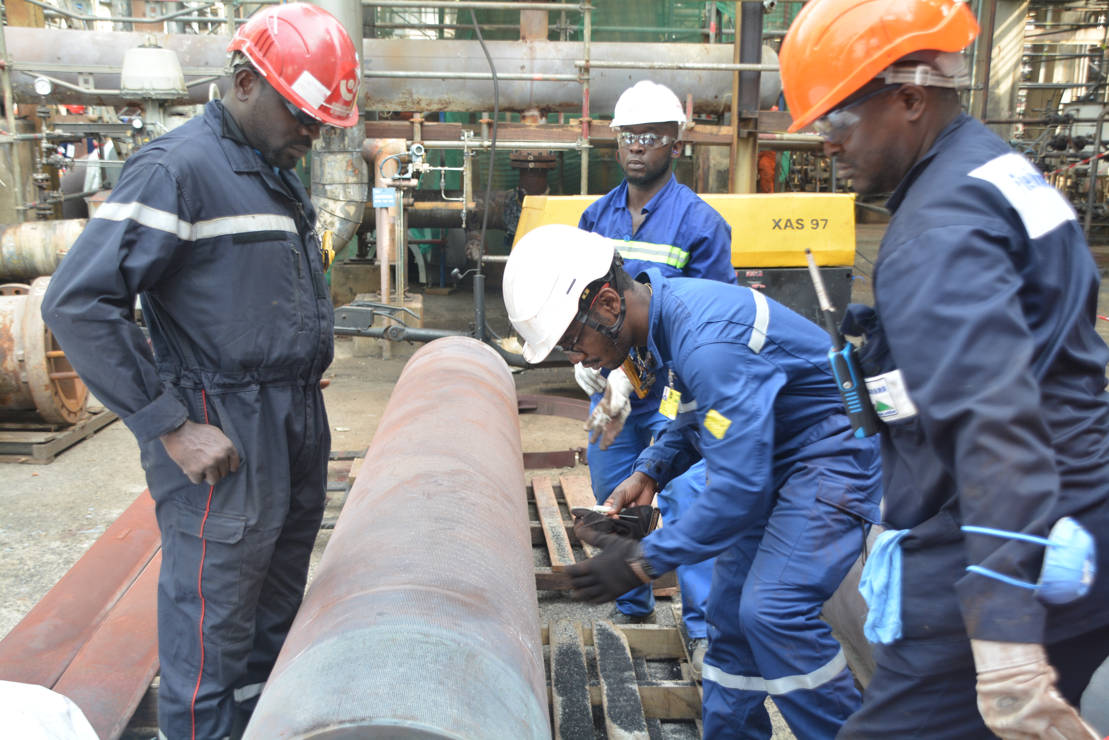 During Turnaround in a refinery, worker at work This is an image of "African people at work" from Cameroon